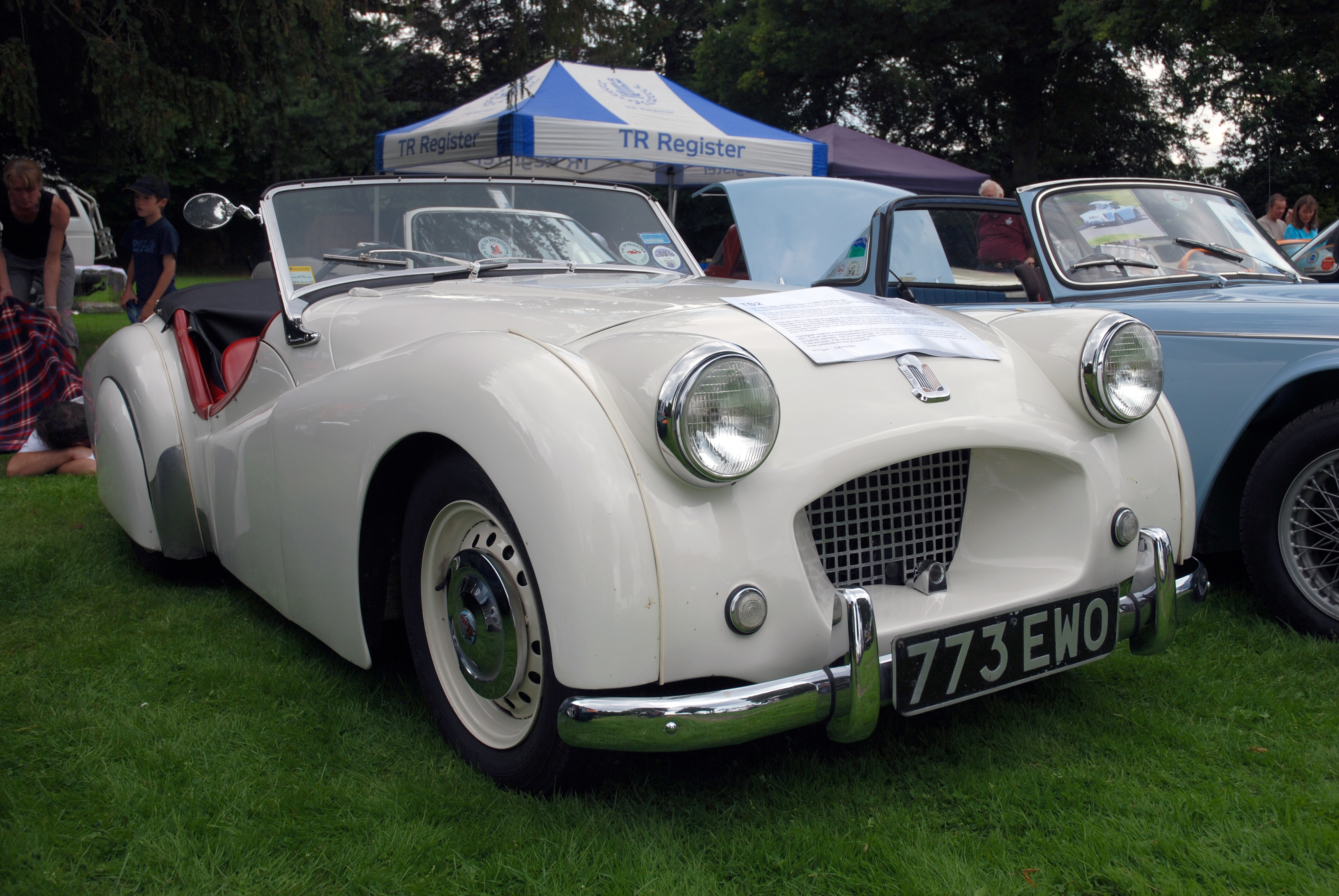 forerunner of the TR2,apparently...Newbury,Aug 2009 (I had a 1955 car and this looks to me a perfect example of a 1953 TR2 but someone has added some bulgy spats over the rear wheels. Otherwise it is perfectly correct.)